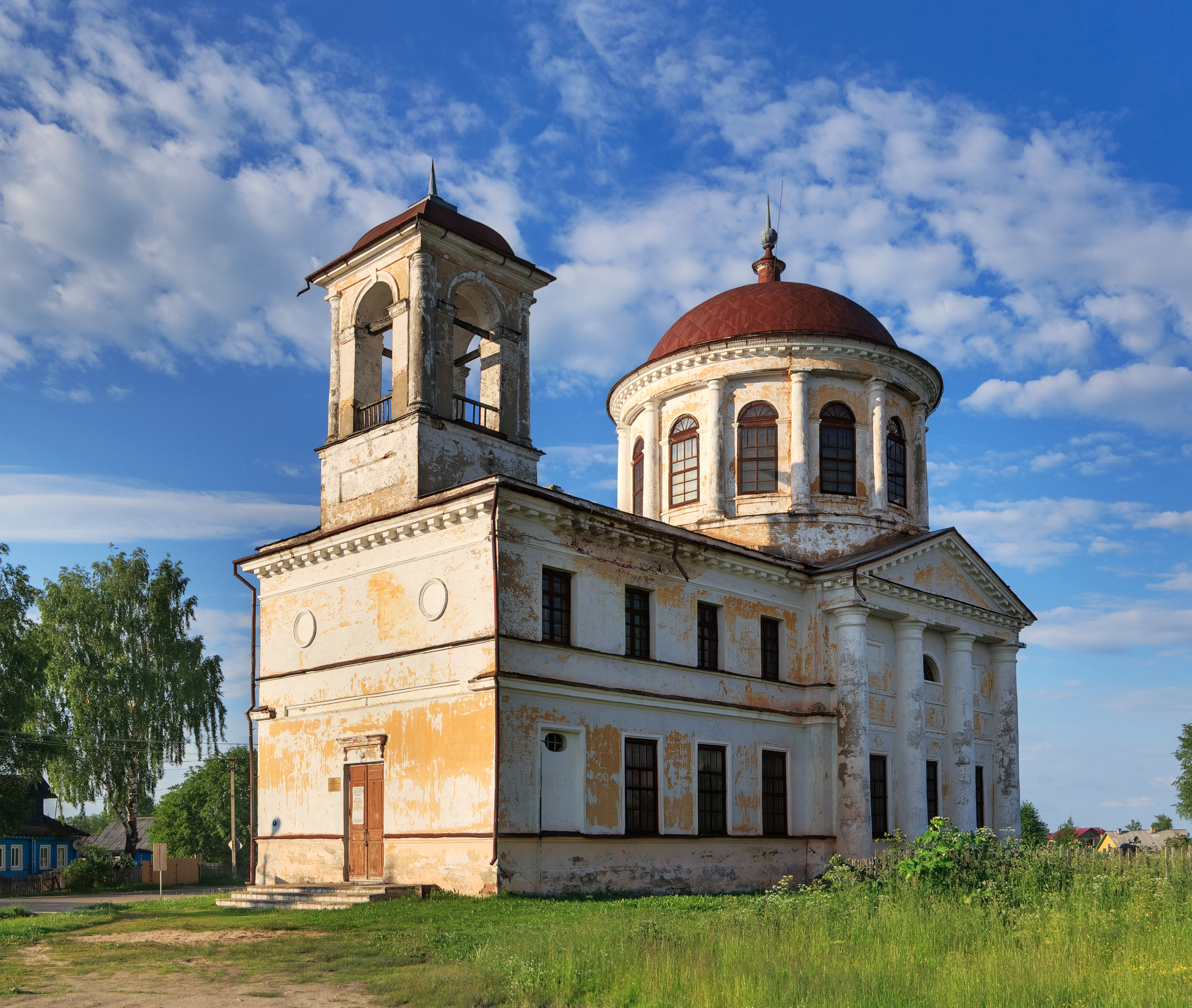 Zosimas and Sabbatius Church, Kargopol, Arkhangelsk Oblast, Russia